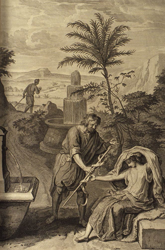 Judah Gives his Signet, Bracelets and Staff in Pledge to Tamar; as in Genesis 38:14-18; "And she put her widow's garments off from her, and covered her with a vail, and wrapped herself, and sat in an open place, which is by the way to Timnath; for she saw that Shelah was grown, and she was not given unto him to wife. When Judah saw her, he thought her to be an harlot; because she had covered her face. And he turned unto her by the way, and said, Go to, I pray thee, let me come in unto thee; (for he knew not that she was his daughter in law.) And she said, What wilt thou give me, that thou mayest come in unto me? And he said, I will send thee a kid from the flock. And she said, Wilt thou give me a pledge, till thou send it? And he said, What pledge shall I give thee? And she said, Thy signet, and thy bracelets, and thy staff that is in thine hand. And he gave it her, and came in unto her, and she conceived by him."; illustration from the 1728 Figures de la Bible; illustrated by Gerard Hoet (1648-1733) and others, and published by P. de Hondt in The Hague; image courtesy Bizzell Bible Collection, University of Oklahoma Libraries